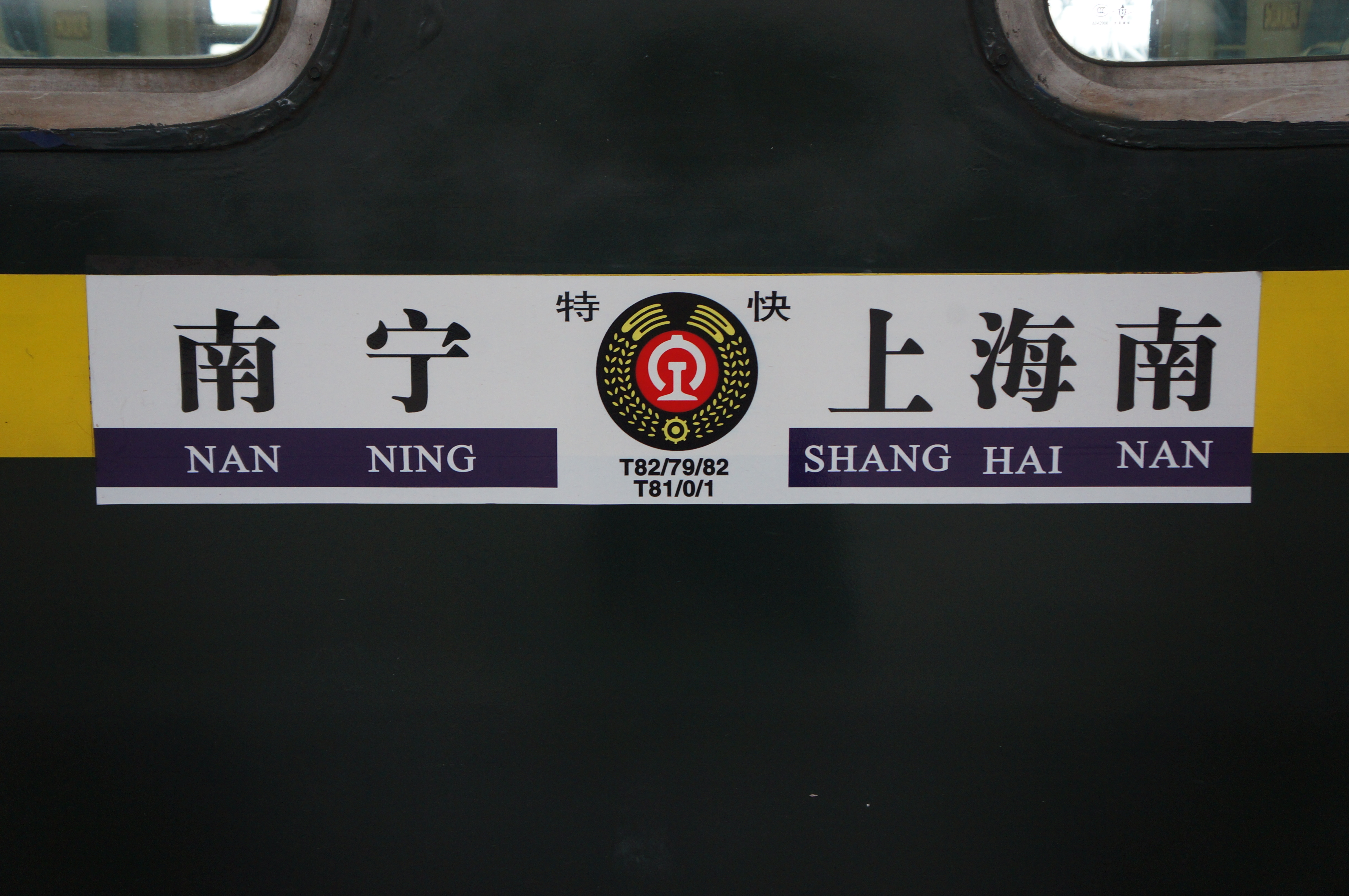 T82 79 81 81 80 81 Information board 201610